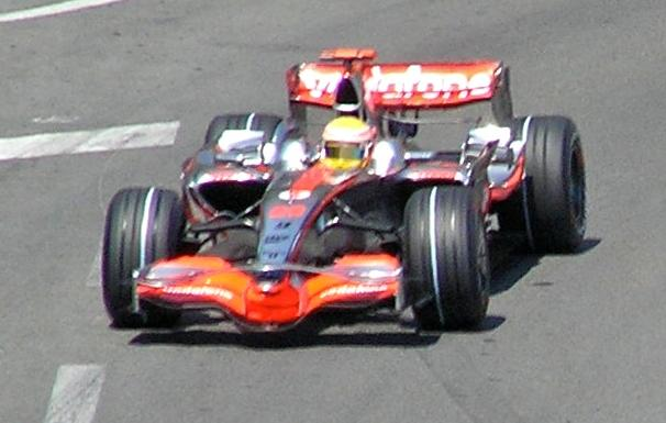 Lewis Hamilton driving for McLaren at the 2008 Monaco Grand Prix.